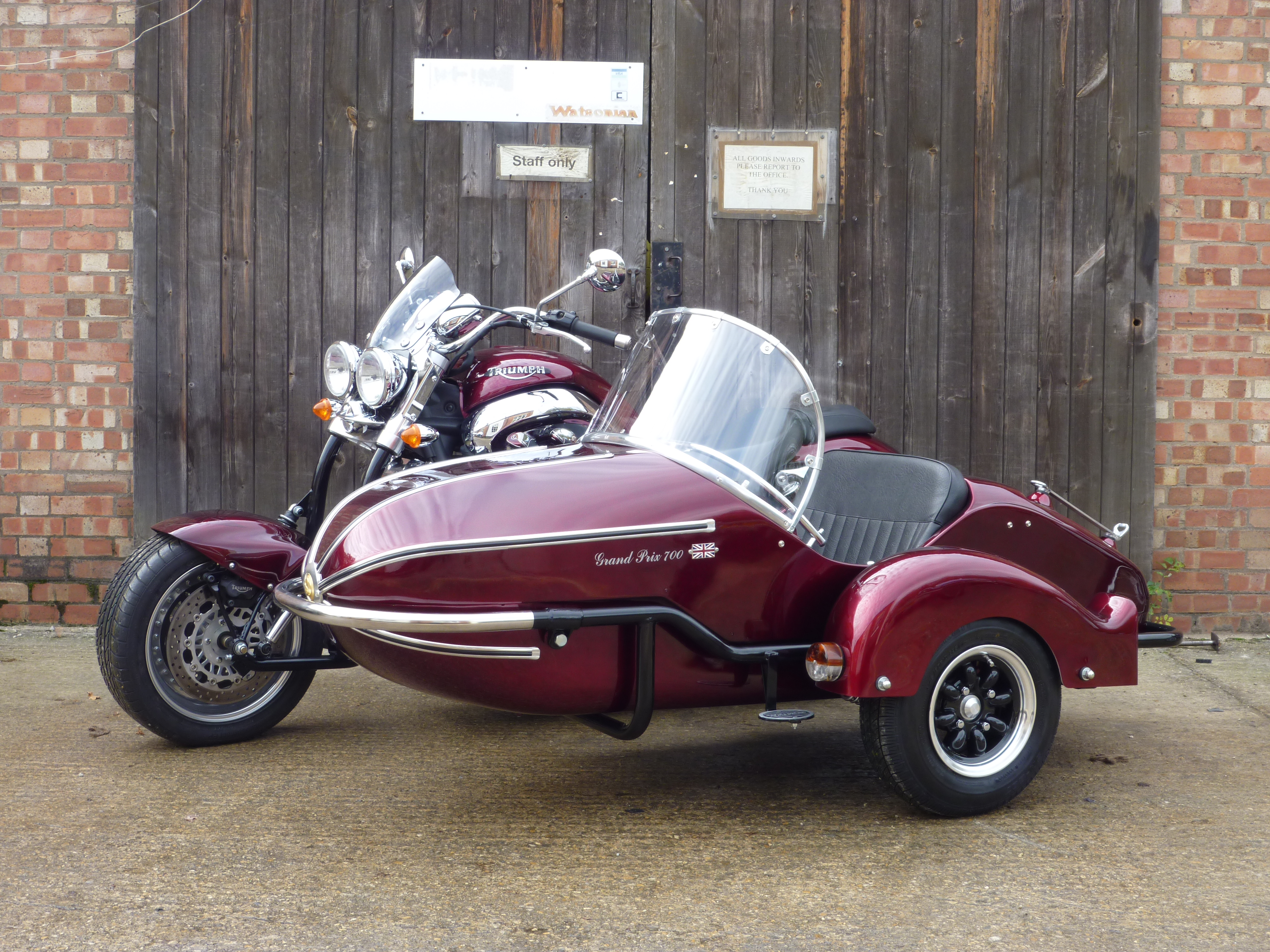 Watsonian GP700 sidecar and Triumph Rocket 3